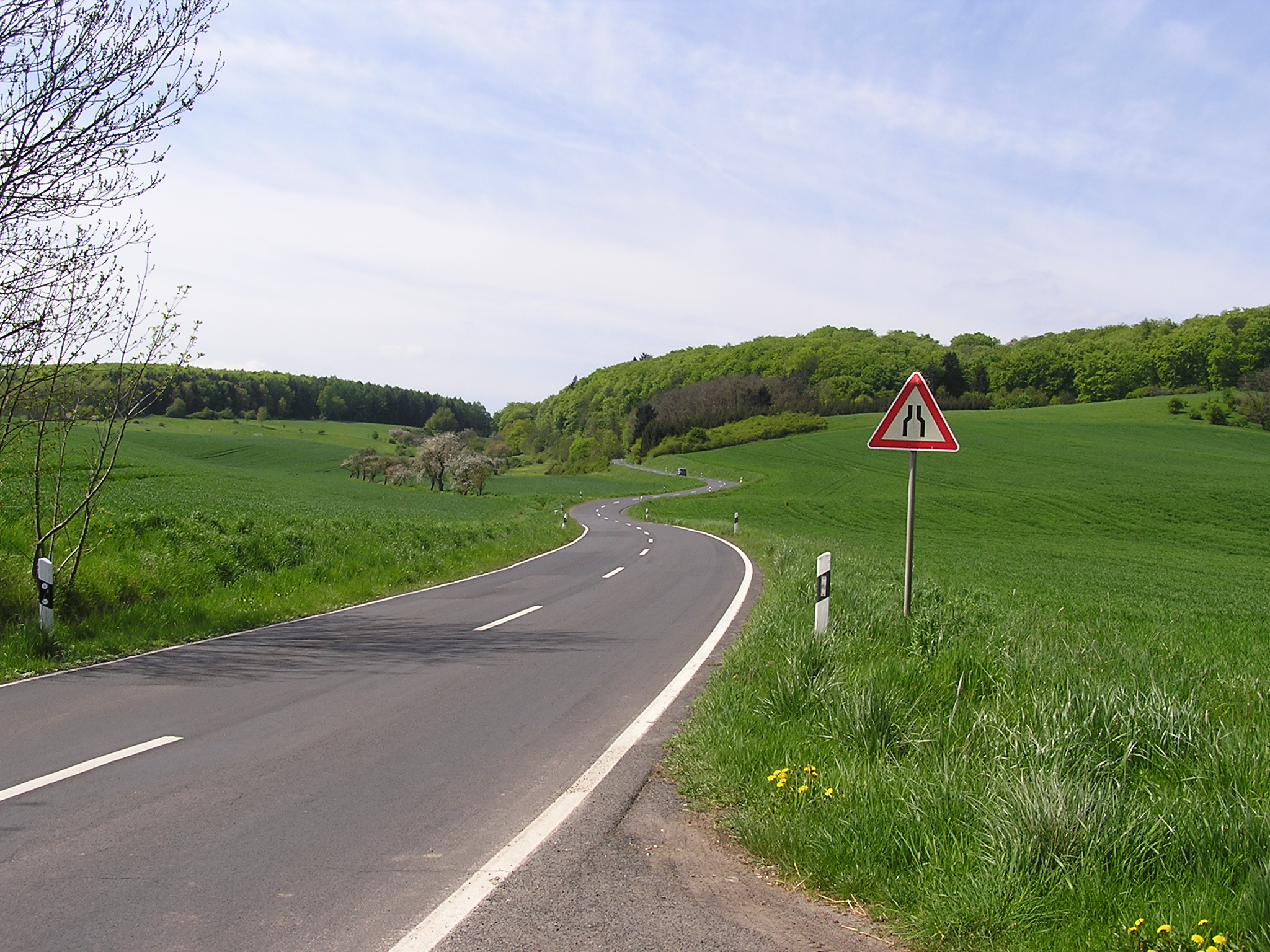 The Hessian Landesstraße 3190 at Glauburg-Stockheim